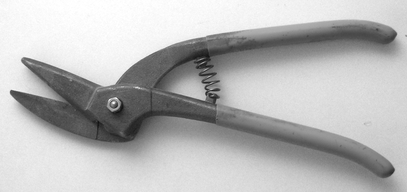 Offset tinner's snips